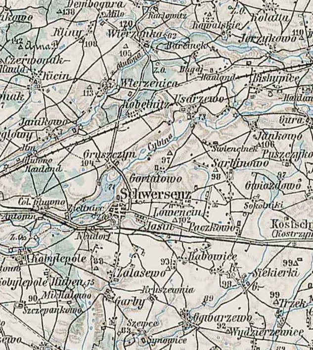 Historical map of Swarzędz administrative district clipped from 3rd Military Mapping Survey of Austria-Hungary - Posen